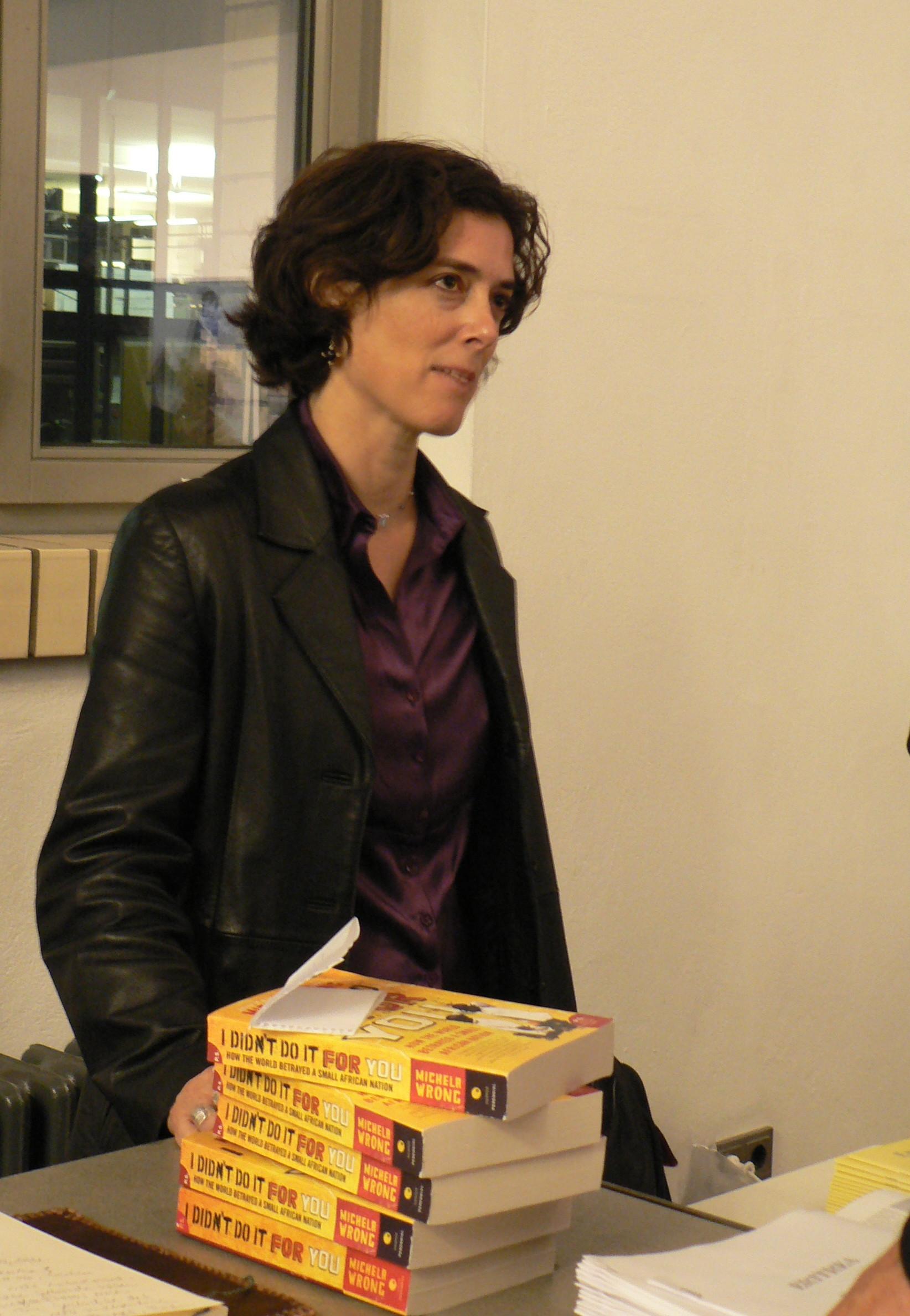 Michela Wrong, Berlin 2006